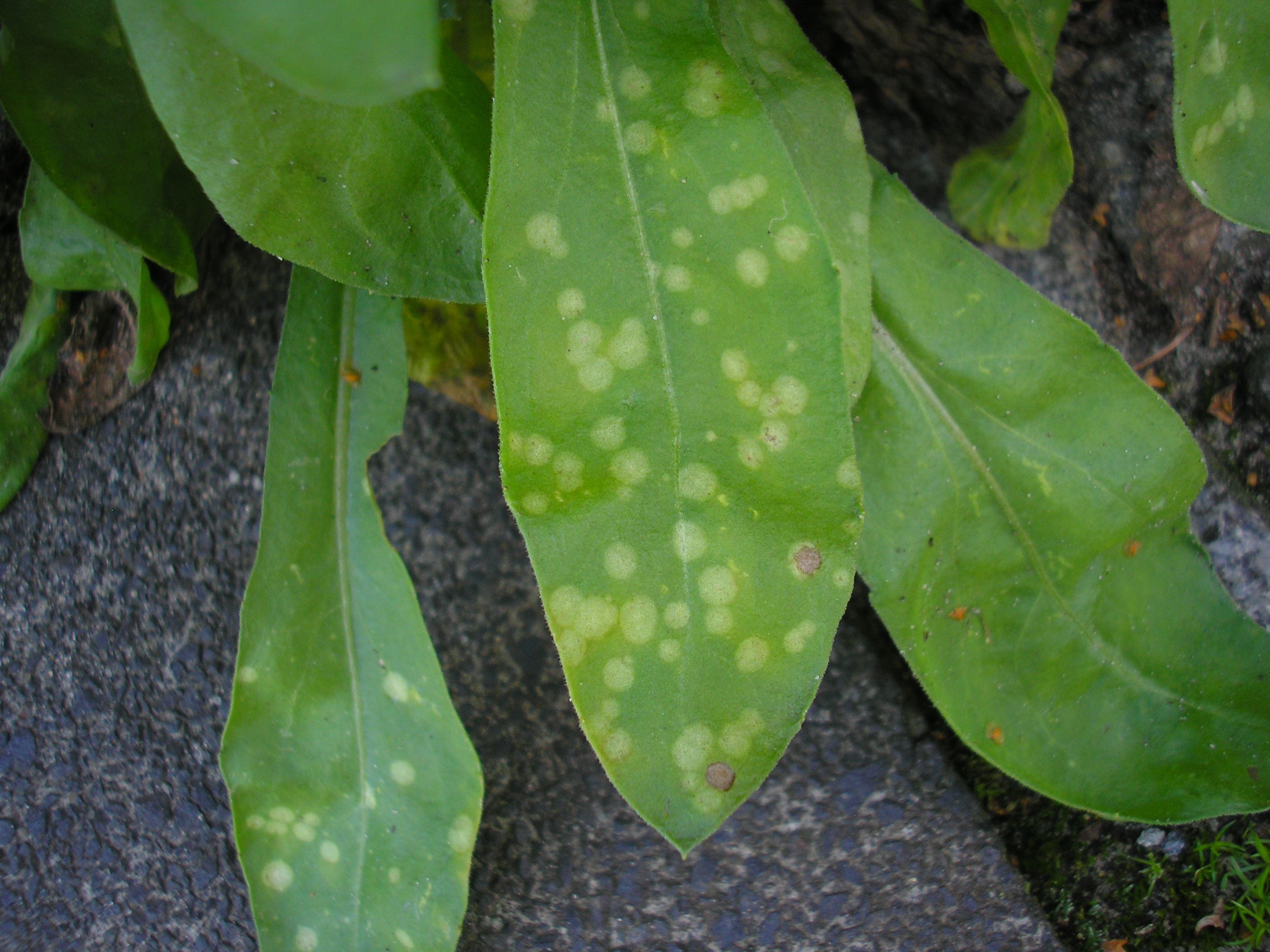 Calendula officinalis infected by Entyloma calendulae